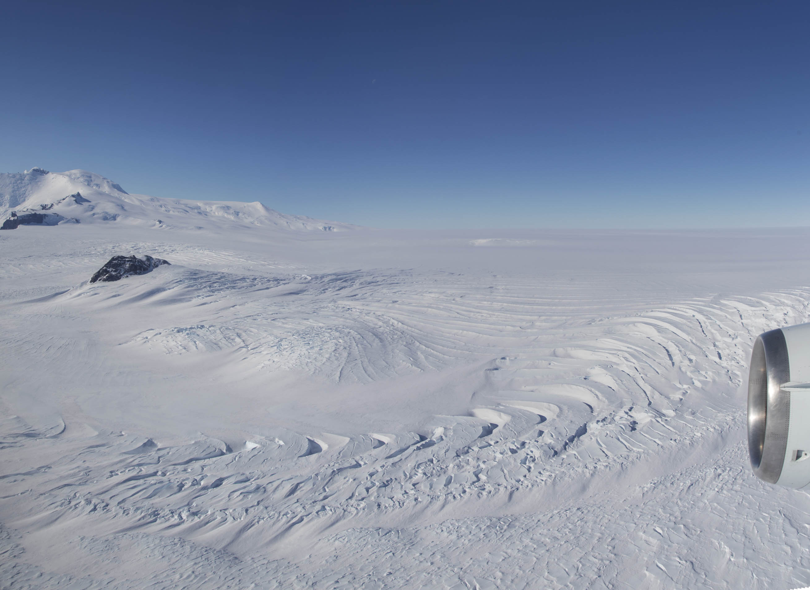 Crevasses on Pope Glacier with Mt. Murphy in the background .(NASA/Jeremy Harbeck)